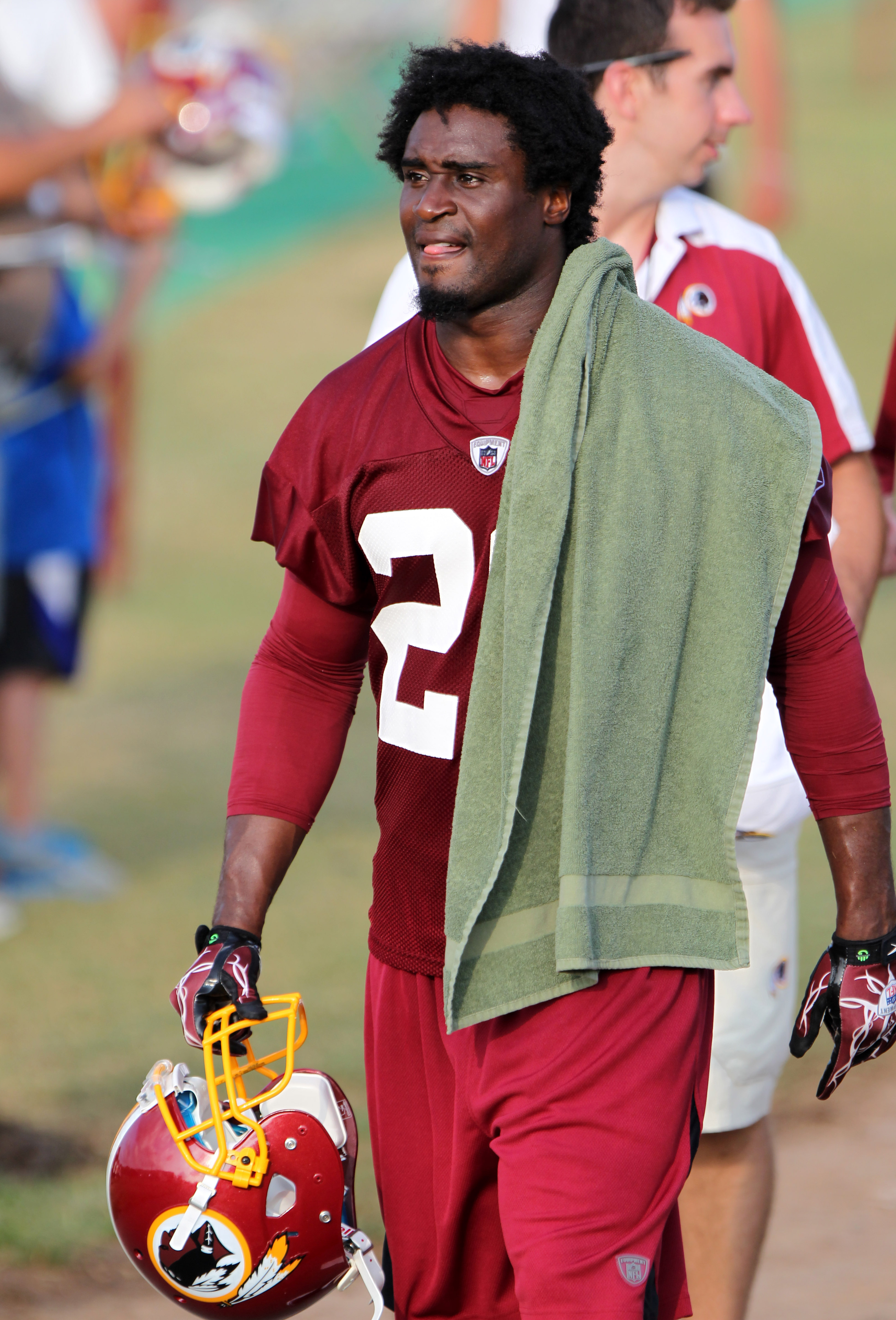 Washington Redskins Training Camp August 4, 2011